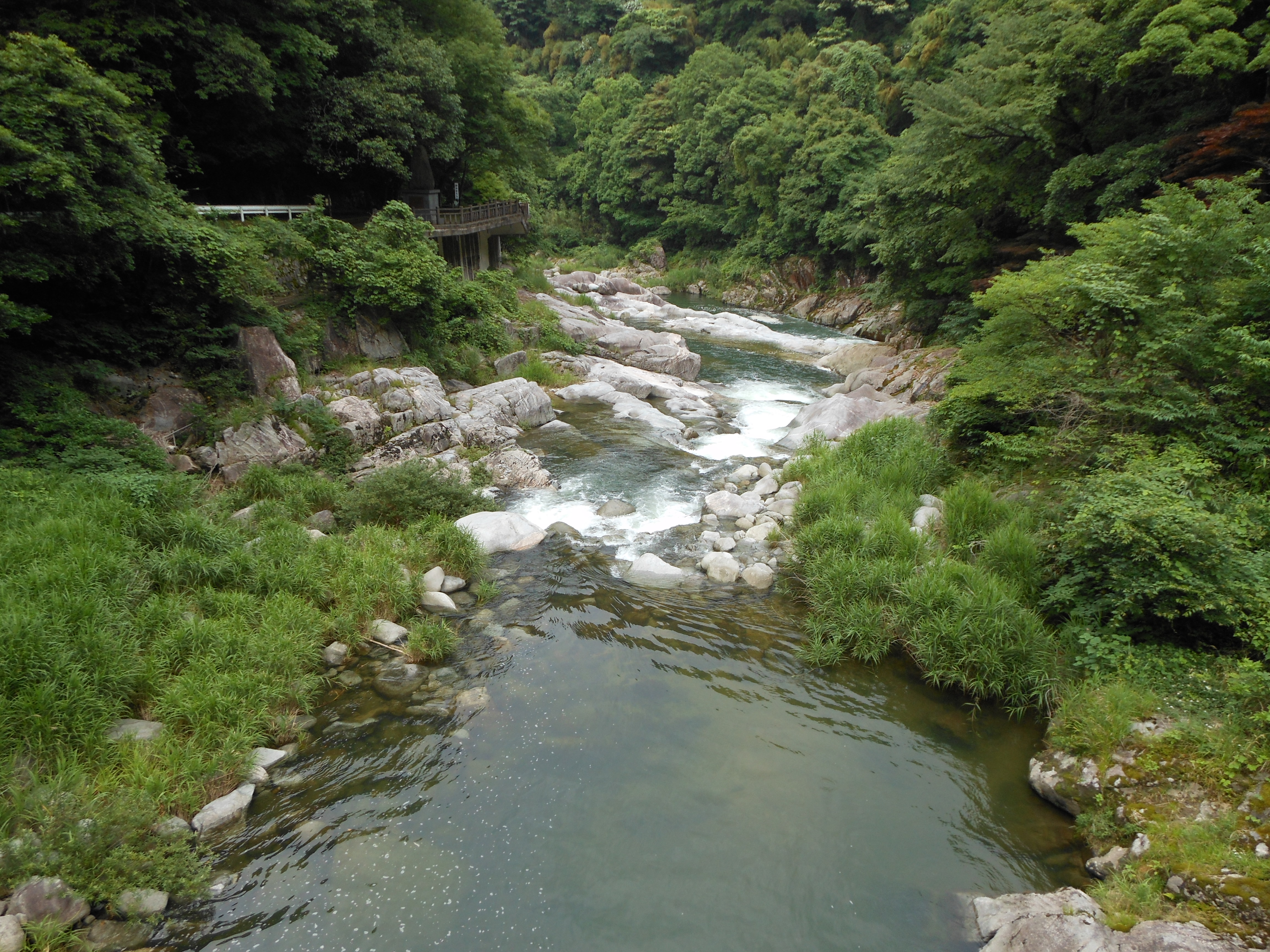 Obuchi-Mebuchi, Kase River